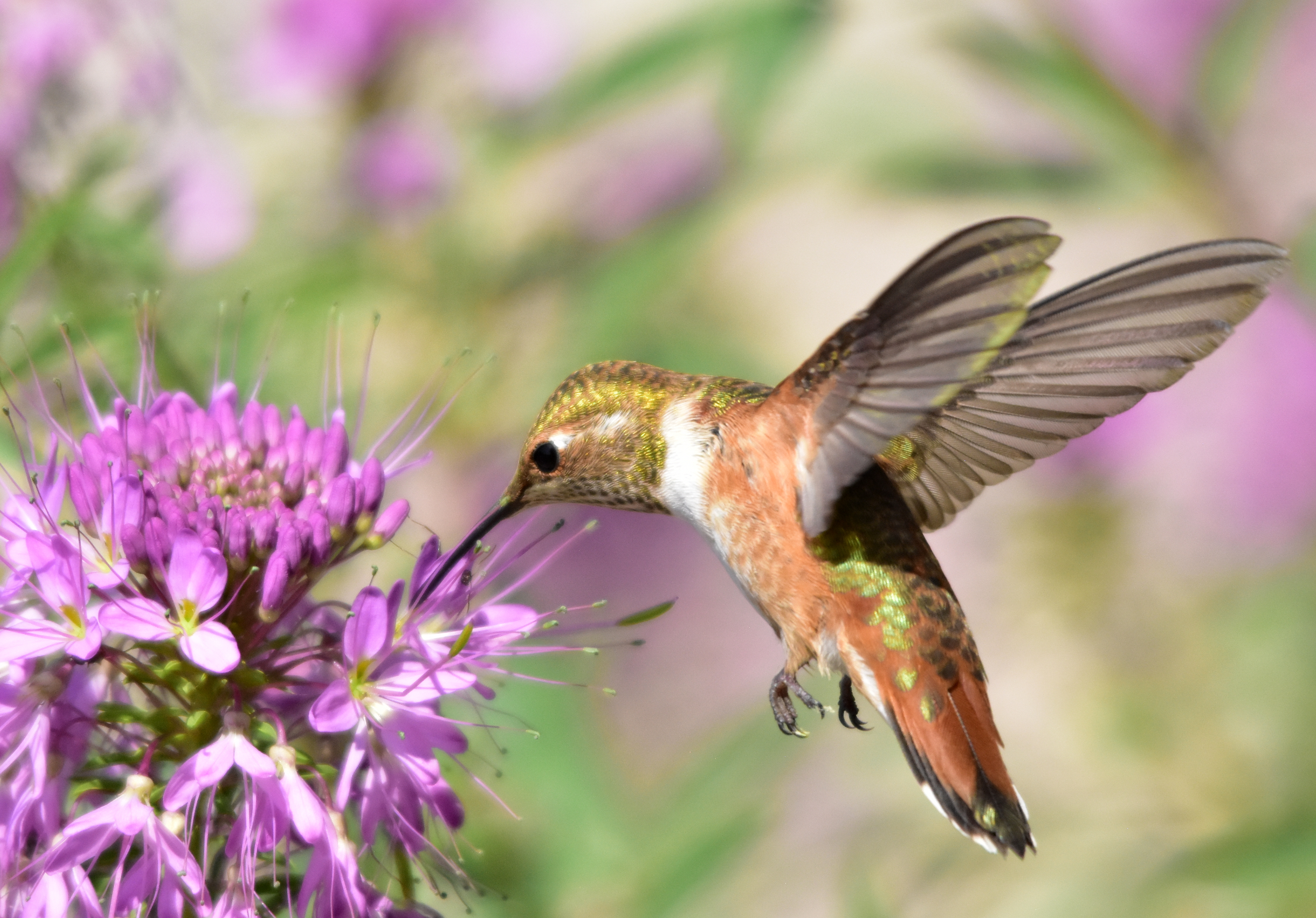 A juvenille male rufous hummingbird nectaring on Rocky Mountain Beeplant at Seedskadee National Wildlife Refuge in Wyoming. Rufous hummingbirds (Selasphorus rufus) are amazing because of the great distance they migrate from their wintering grounds in Mexico and the southern United States to their breeding grounds in Oregon, Washington, Idaho, western Canada, and southern Alaska. In addition, they breed further north than any other hummingbird. In order to make its marathon journey from breeding to wintering grounds and back, this bird makes great use of a variety of food sources. As with its other hummingbird relatives, nectar from flowering plants makes up a large part of the diet. Small insects are also eaten, found either on the wing or through aerial foraging. When nectar is scarce, rufous hummingbirds will also make use of wells drilled in trees by sapsuckers. They’re also quite territorial, and will defend their flower patches from other birds. The lengthy clockwise migration route, which occurs primarily to the west of the Rocky Mountains in the spring and through the Rocky Mountains in the fall, makes the species unique. And, this small bird plays an important role in plant reproduction by moving pollen from plant to plant on its winter grounds, breeding grounds, and any area over which it migrates. From Alaska to Mexico and throughout the western United States, the rufous hummingbird drinks nectar and pollinates flowers year-round throughout the thousands of miles of habitat that it visits annually. Photo: Tom Koerner/USFWS